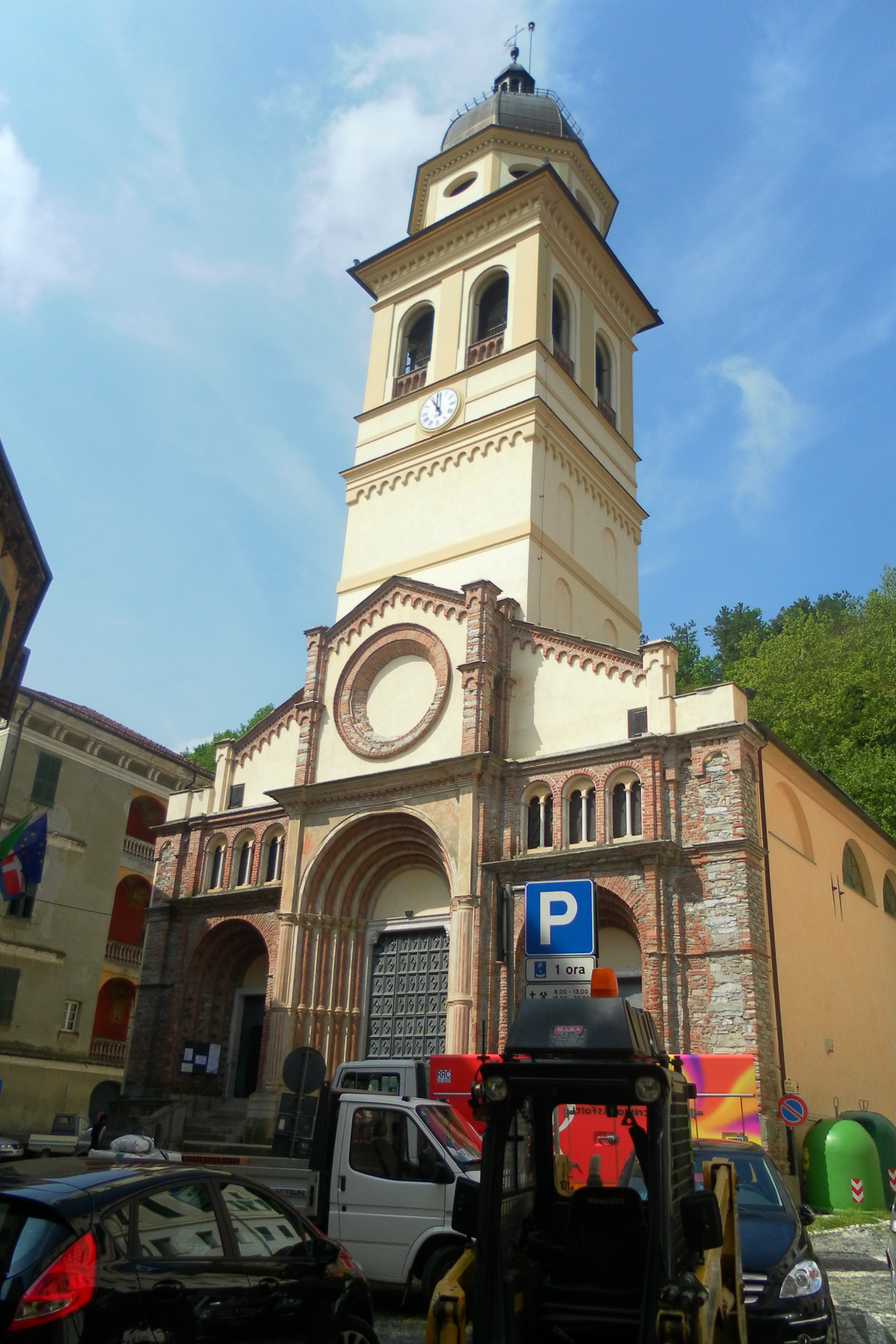 Voltaggio (AL)